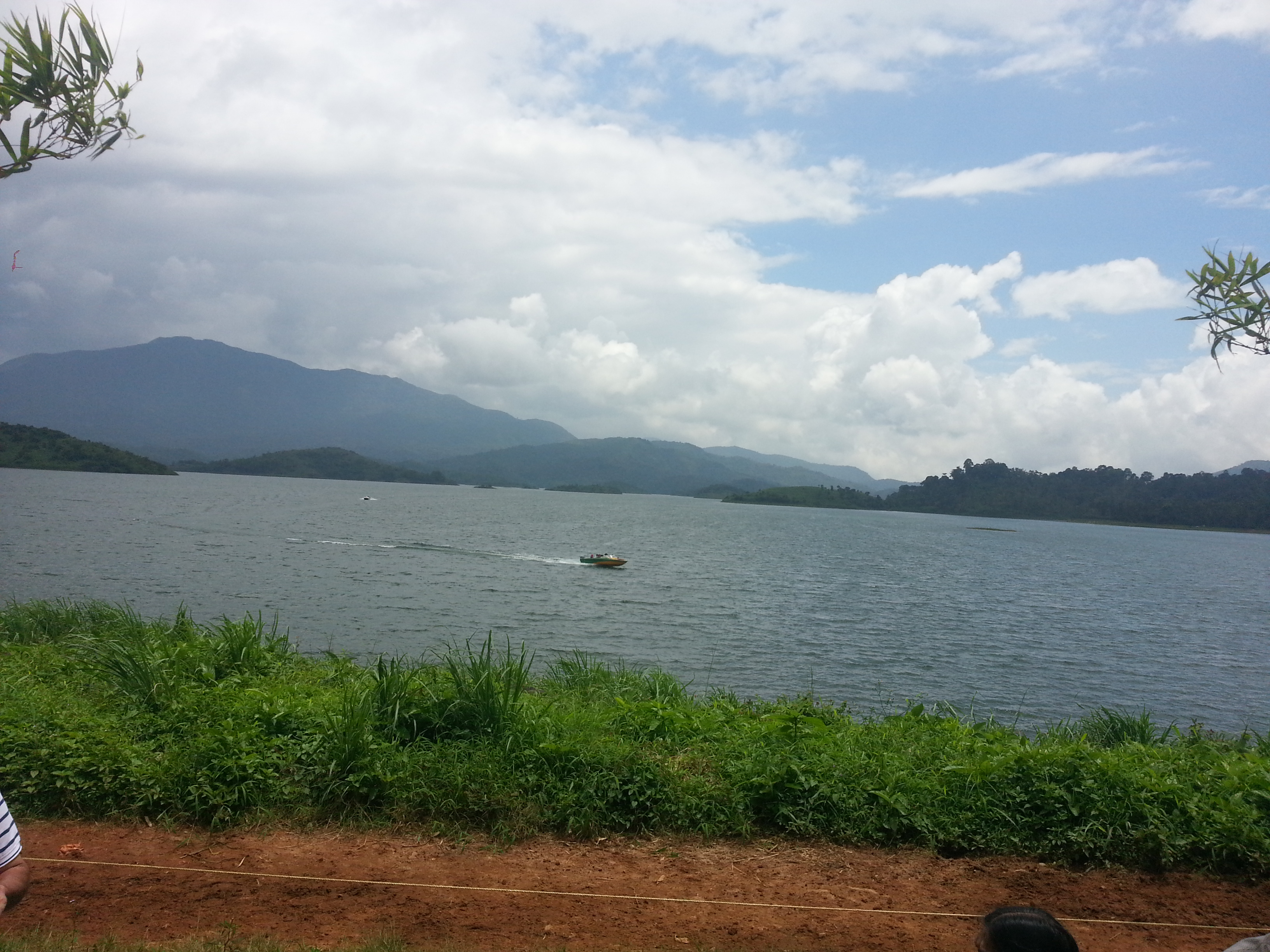 its one of the tourist places in wayanad